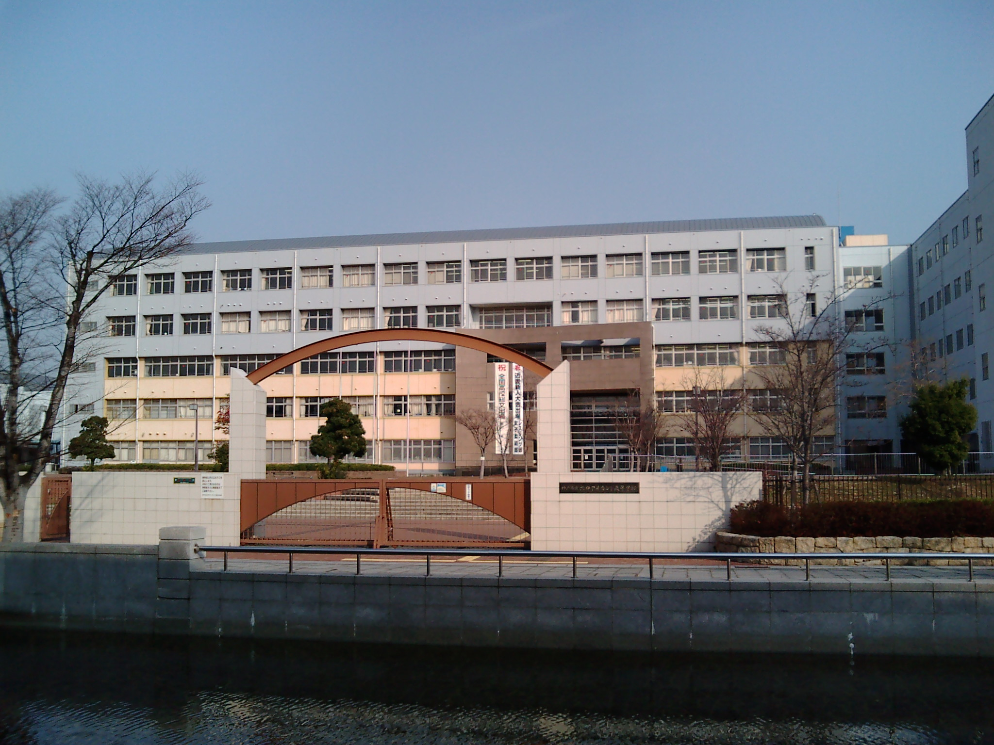 Rokko Island High School in Higashinada-district, Kobe, Hyogo, Japan